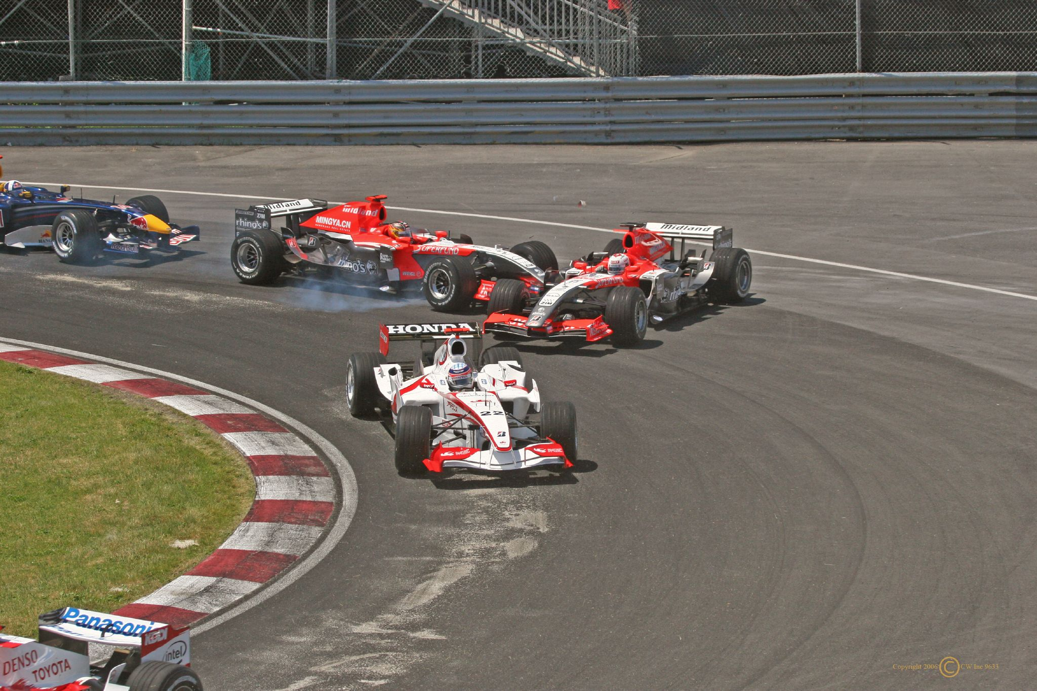 The MF1 Racing drivers, Christijan Albers and Tiago Monteiro, collide on the first lap of the 2006 Canadian Grand Prix.